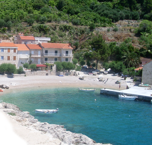 Podobuče